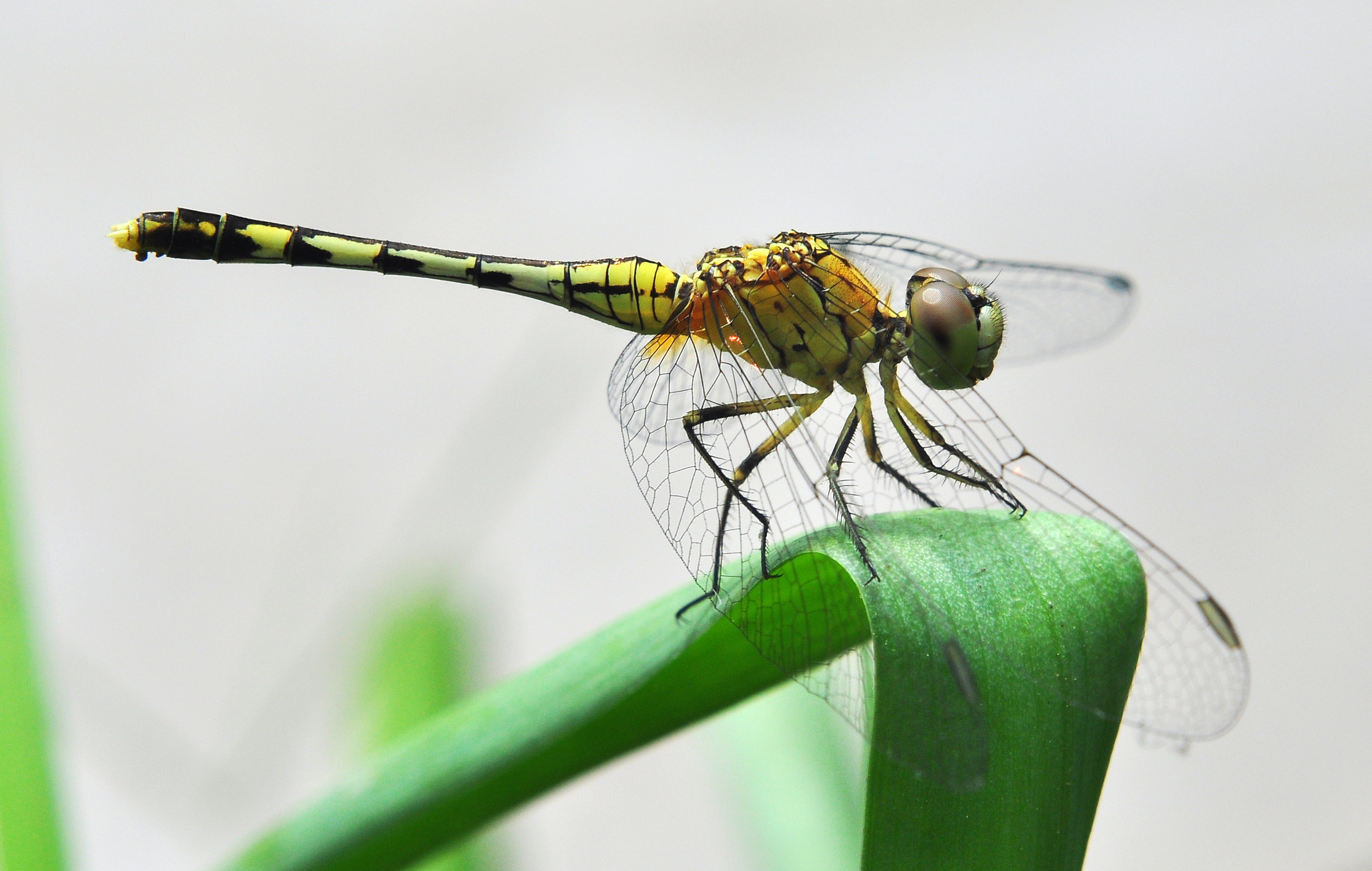 Diplacodes trivialis female. A small greenish yellow dragonfly with black markings. Abdominal markings are broader and continued on to segments 8-10. The 10th segment and anal appendages are completely yellow. One of the commonest dragonflies in gardens, fields, playgrounds. This dragonfly usually perches on the ground and rarely flies above 1m. Found throughout Oriental region and Pacific islands. Taken at Burdwan, West Bengal, India.